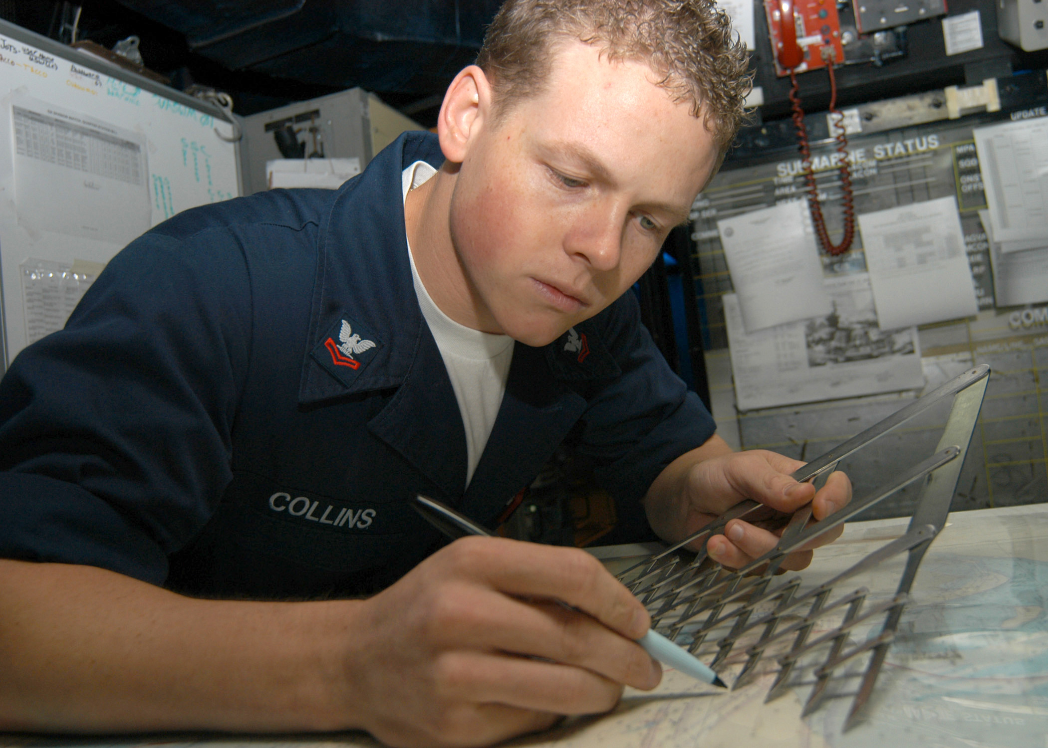 Arabian Gulf (Sept. 27, 2004) - Aviation Warfare Systems Operator 2nd Class Jonathan Collins of Wildwood Florida, plots water space management for ships maneuvering in the Arabian Gulf aboard the aircraft carrier USS John F. Kennedy (CV 67). Kennedy and Carrier Air Wing Seventeen (CVW-17) are operating in the 5th Fleet area of responsibility (AOR) in support of Operation Iraqi Freedom (OIF). Units attached to the Kennedy Carrier Strike Group (CSG) are working closely with Multi-National Corps-Iraq and Iraqi forces to bring stability to the sovereign government of Iraq. U.S. Navy photo by Photographer’s Mate Airman Tommy Gilligan (RELEASED)